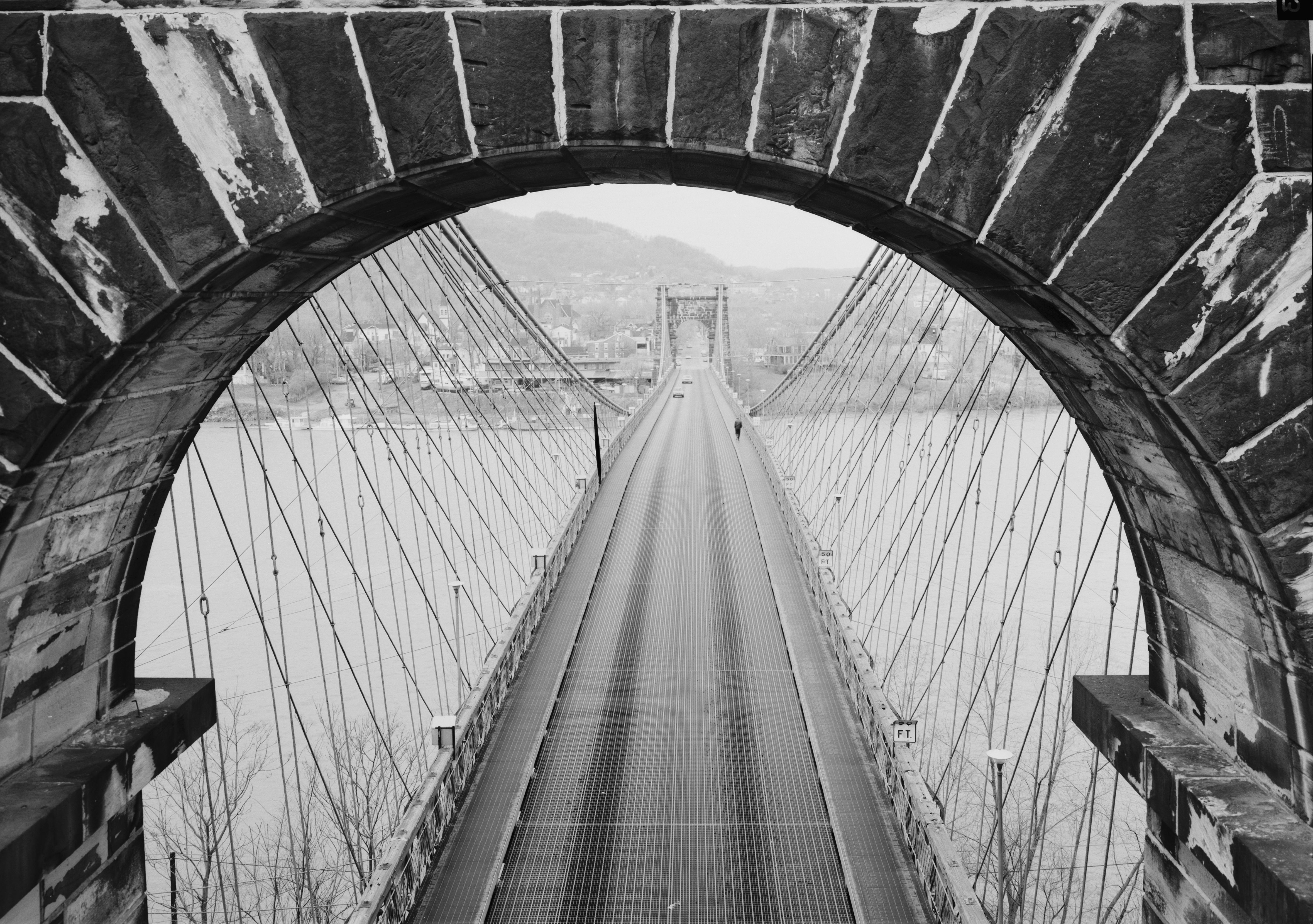 Wheeling Suspension Bridge over the Ohio River — West Virginia, eastern United States. A National Historic Civil Engineering Landmark. Historic American Engineering Record—HAER image.